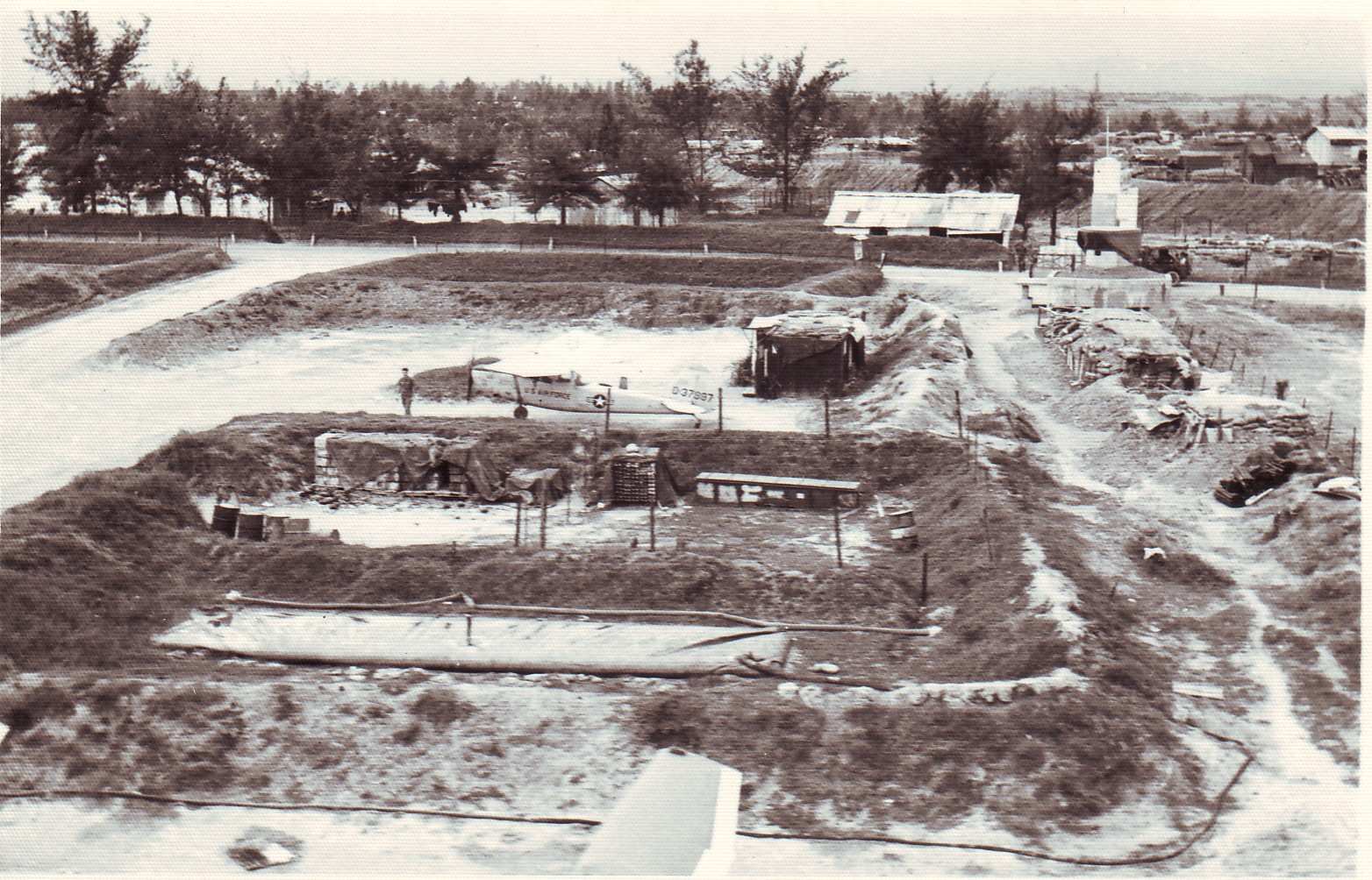 USAF 0-1s at La Vang air field, Quang Tri Province, VNAF l-19 in the foreground.